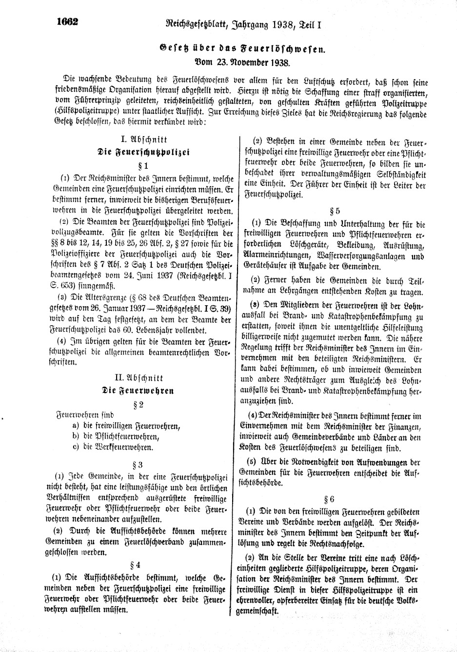 Scan from the Imperial Law Gazette of Germany, 1938, part 1